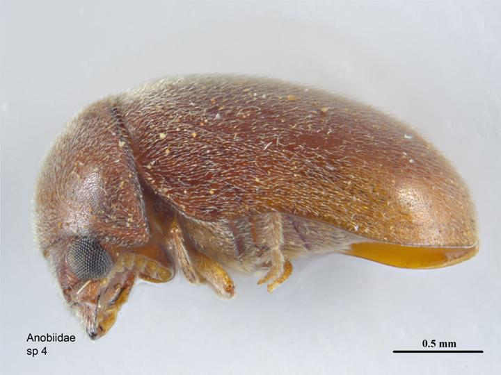 Lasioderma serricorne. Location: Australia - Barrow Island